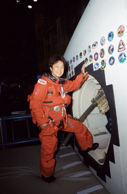 Sometimes we like to call those bright orange suits (Advanced Crew Escape Suits, ACES) pumpkin suits. Happy Halloween! (Sourced from the Source)